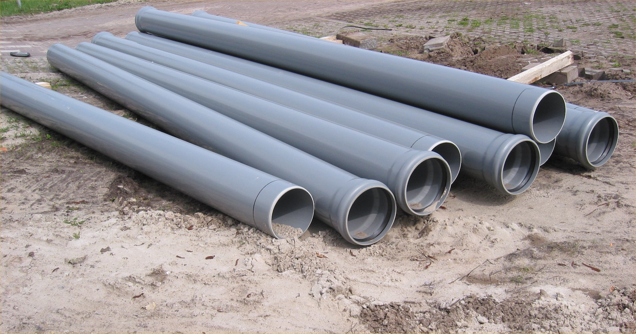 Sewer plastic pipelines